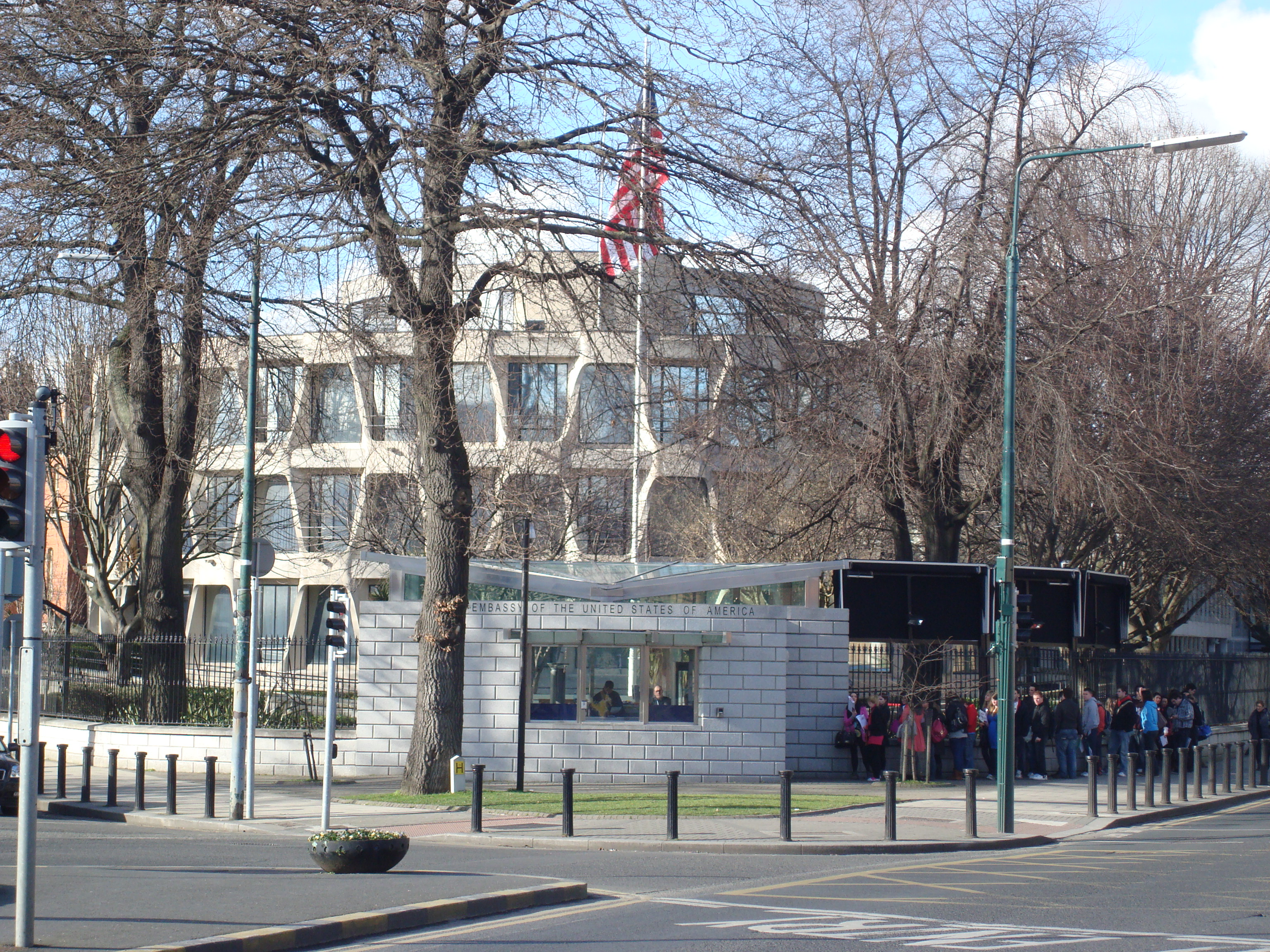 Embassy of the United States in Dublin, Ireland